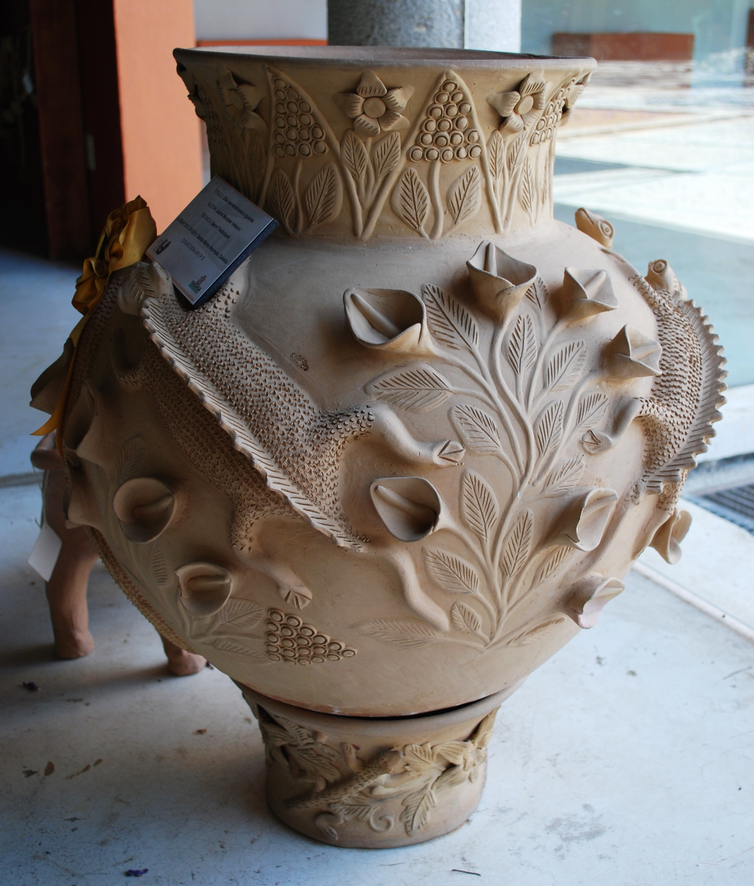 Large pottery jar with lilies by Juana Morales Velazco of Santa Maria Atzompa on display at Museo Estatal de Arte Popular de Oaxaca in San Bartolo Coyotepec, Oaxaca, Mexico. See COM:CRT/Mexico#Freedom of panorama